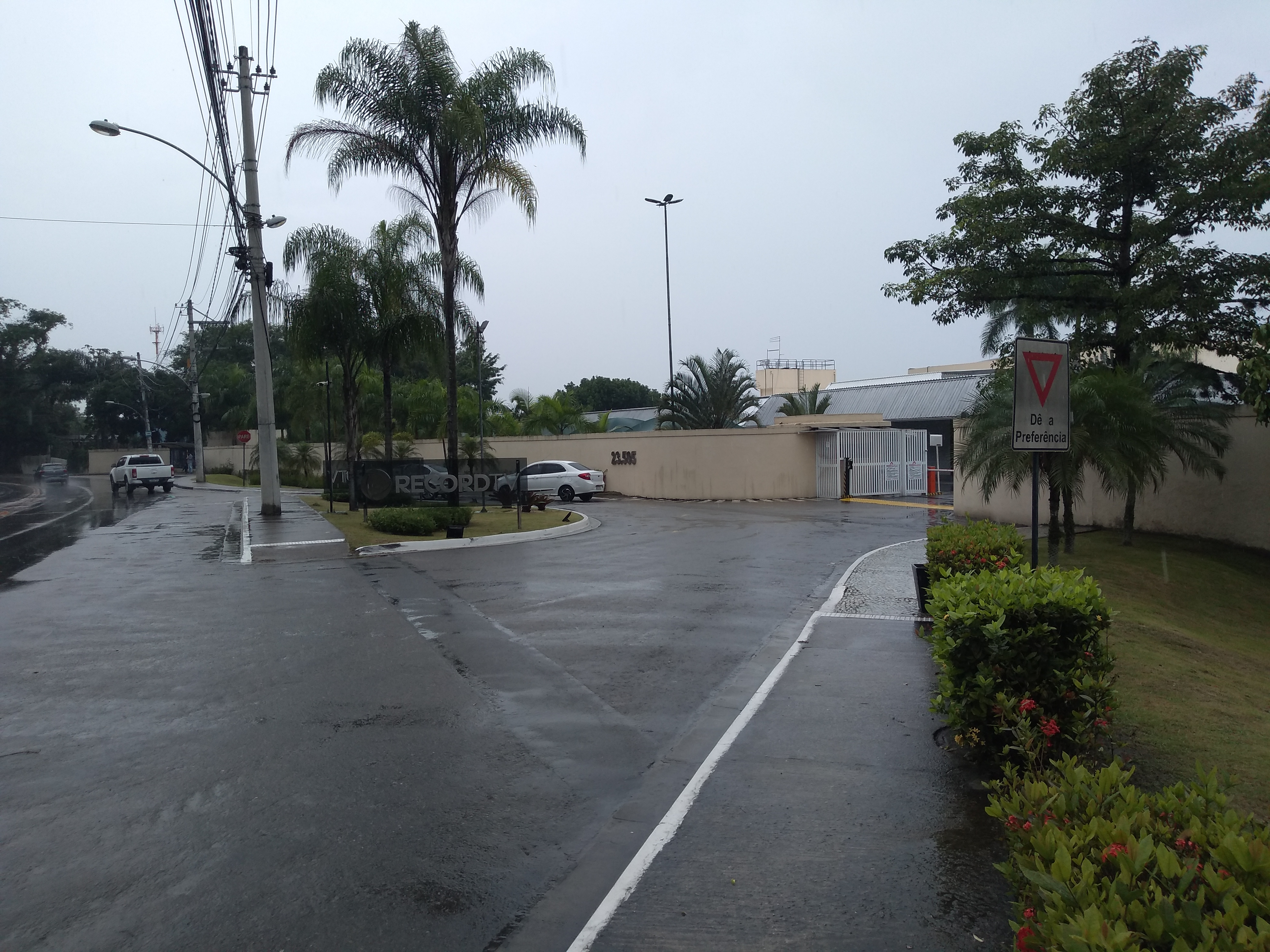 Headquarters of RecordTV, (ZYB 513) channel 13 of Rio de Janeiro.